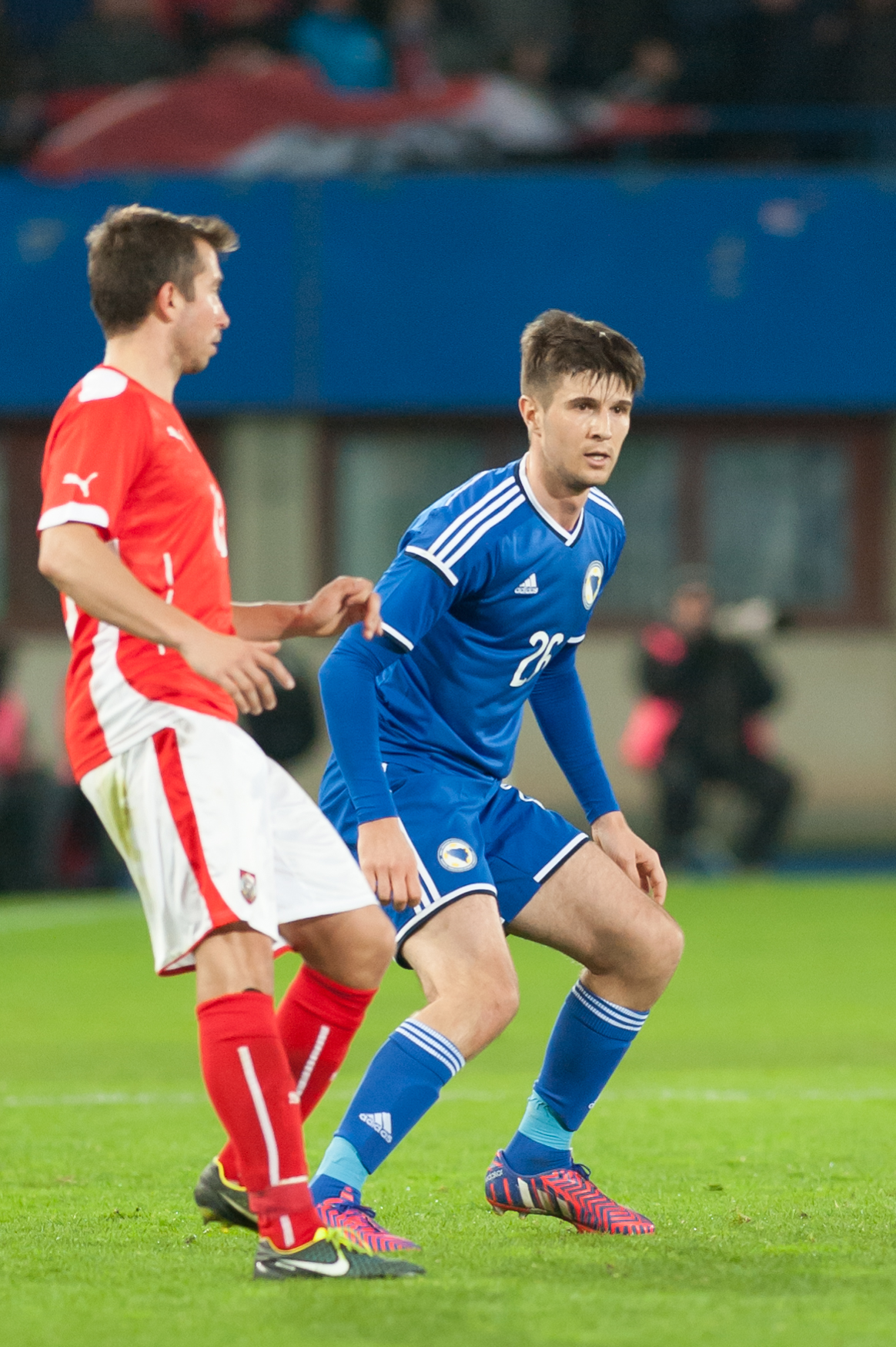 International friendly Austria vs. Bosnia and Herzegovina, 2015-03-31, Vienna